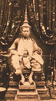 สมเด็จพระนโรดมพรหมบริรักษ์ขณะพิธีสืบราชสมบัติกัมพูชาที่กรุงเทพฯ